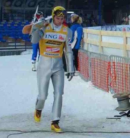 FIS Ski Jumping World Cup in Zakopane, 2003 Janne Ahonen